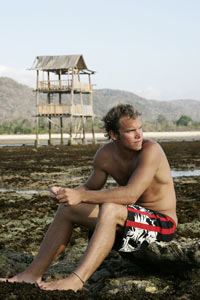 jeremie eloy